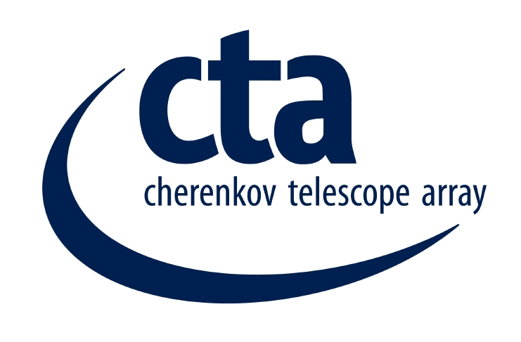 Logo of the Cherenkov_Telescope_Array